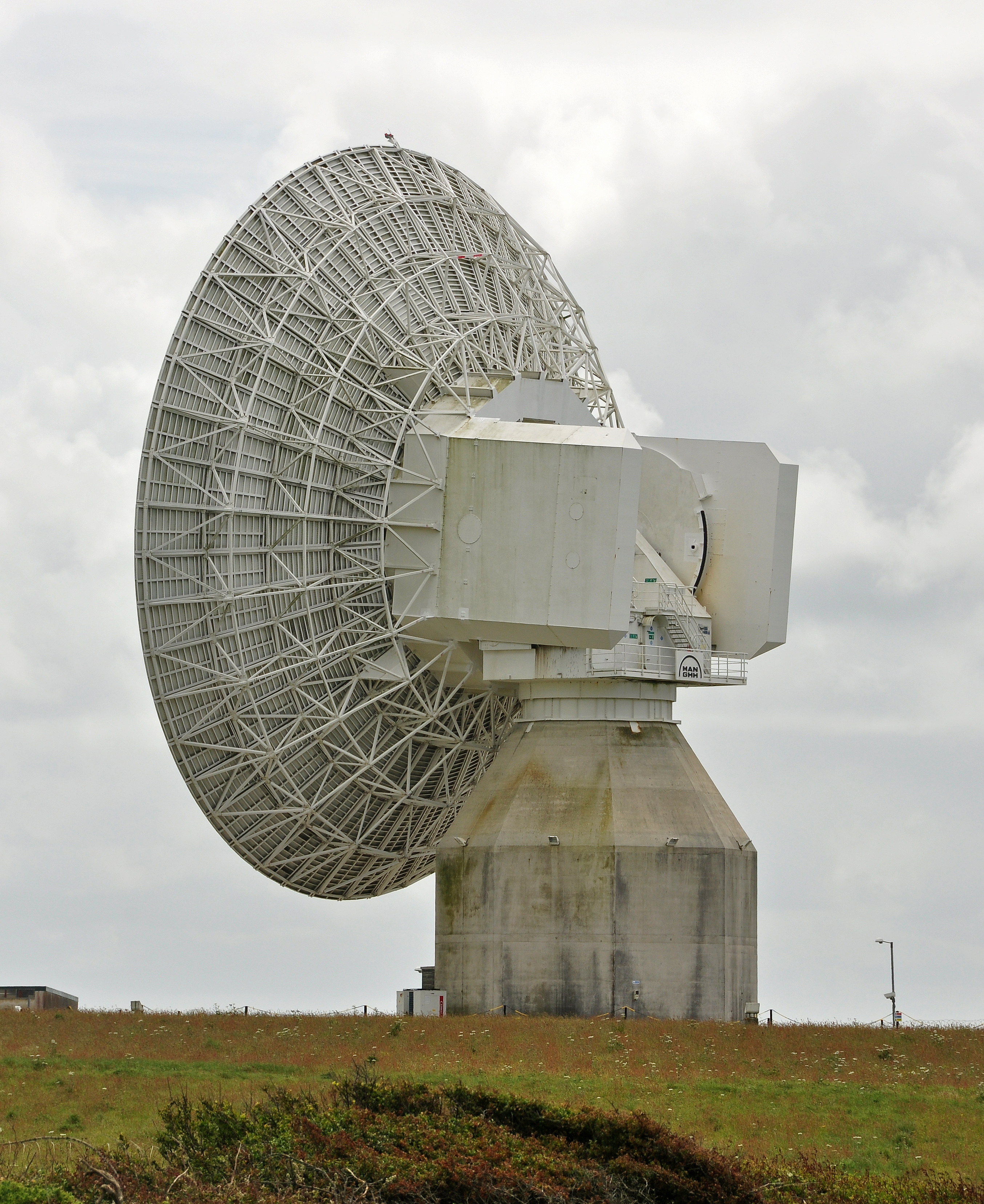 One of the large satellite dishes at GCHQ Bude in Cornwall.